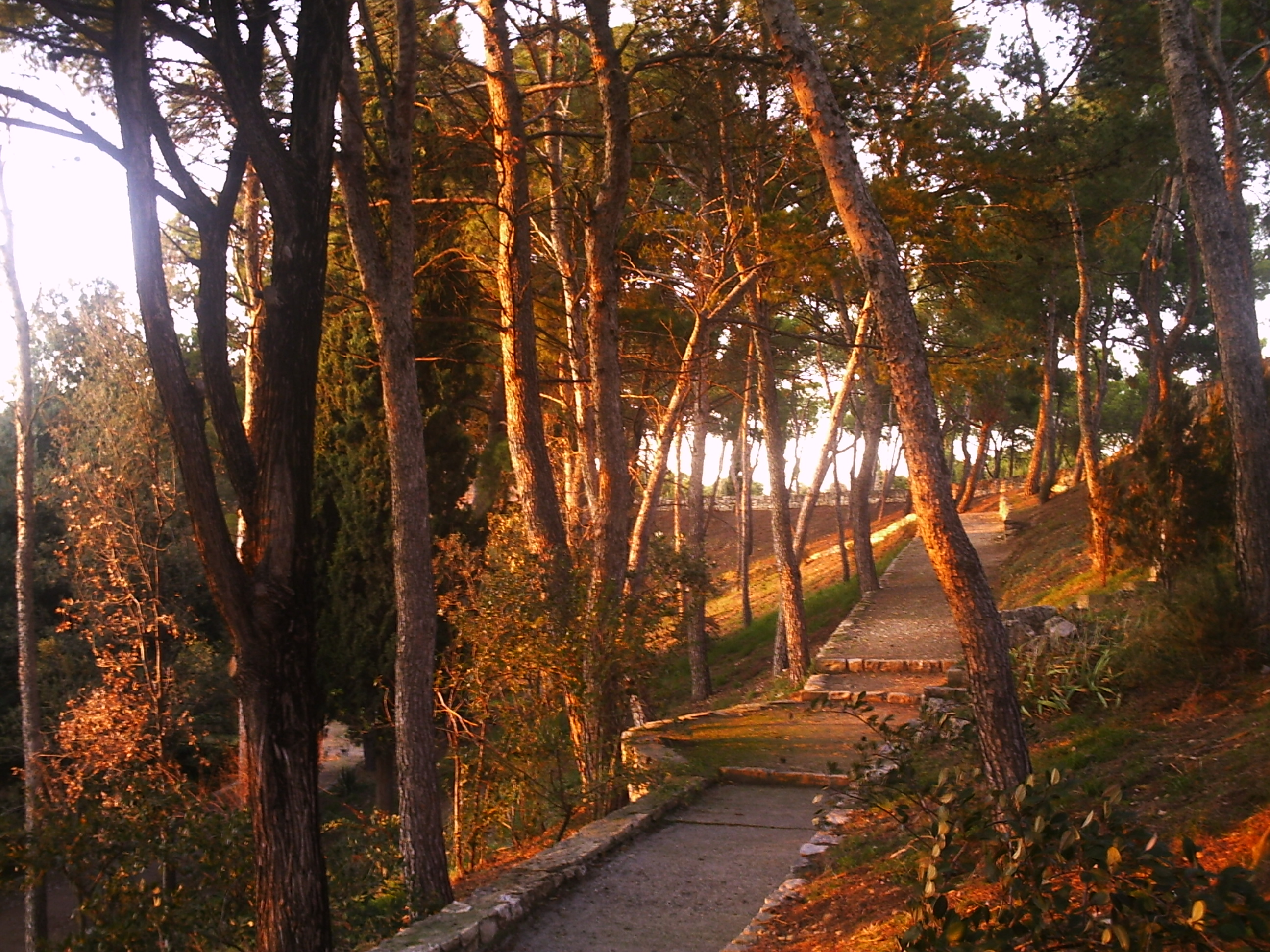 Sant Eloi park, in the sunset.